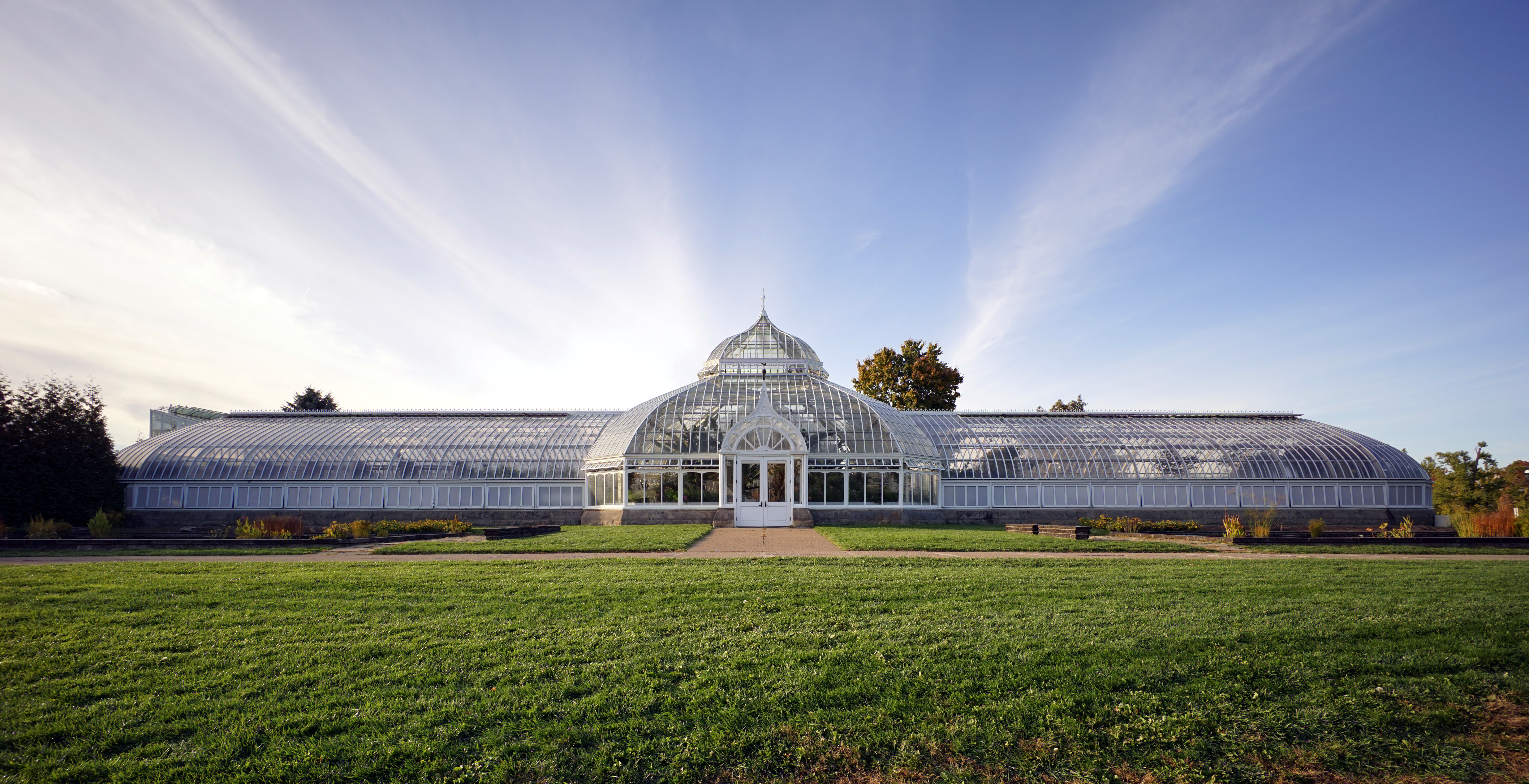 The Phipps Conservatory and Botanical Gardens is a complex of buildings and grounds set in Schenley Park, Pittsburgh, Pennsylvania. Founded in 1893, the gardens serve to educate and entertain the people of Pittsburgh with formal gardens.